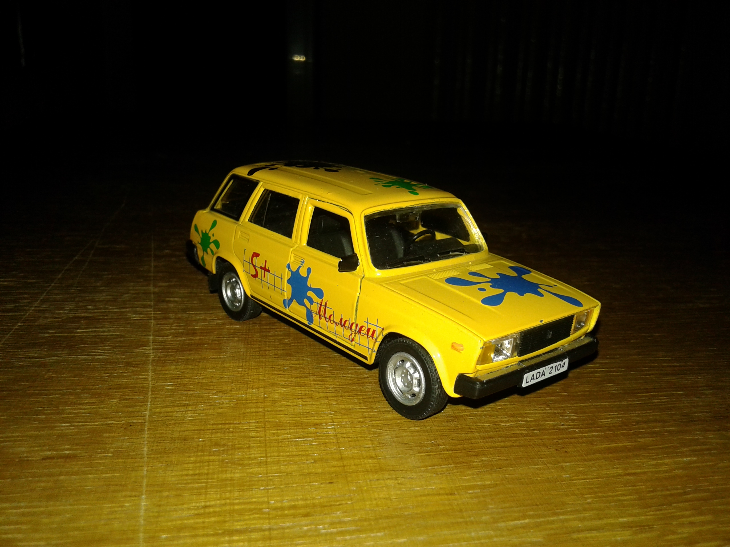 Car "VAZ-2104" model